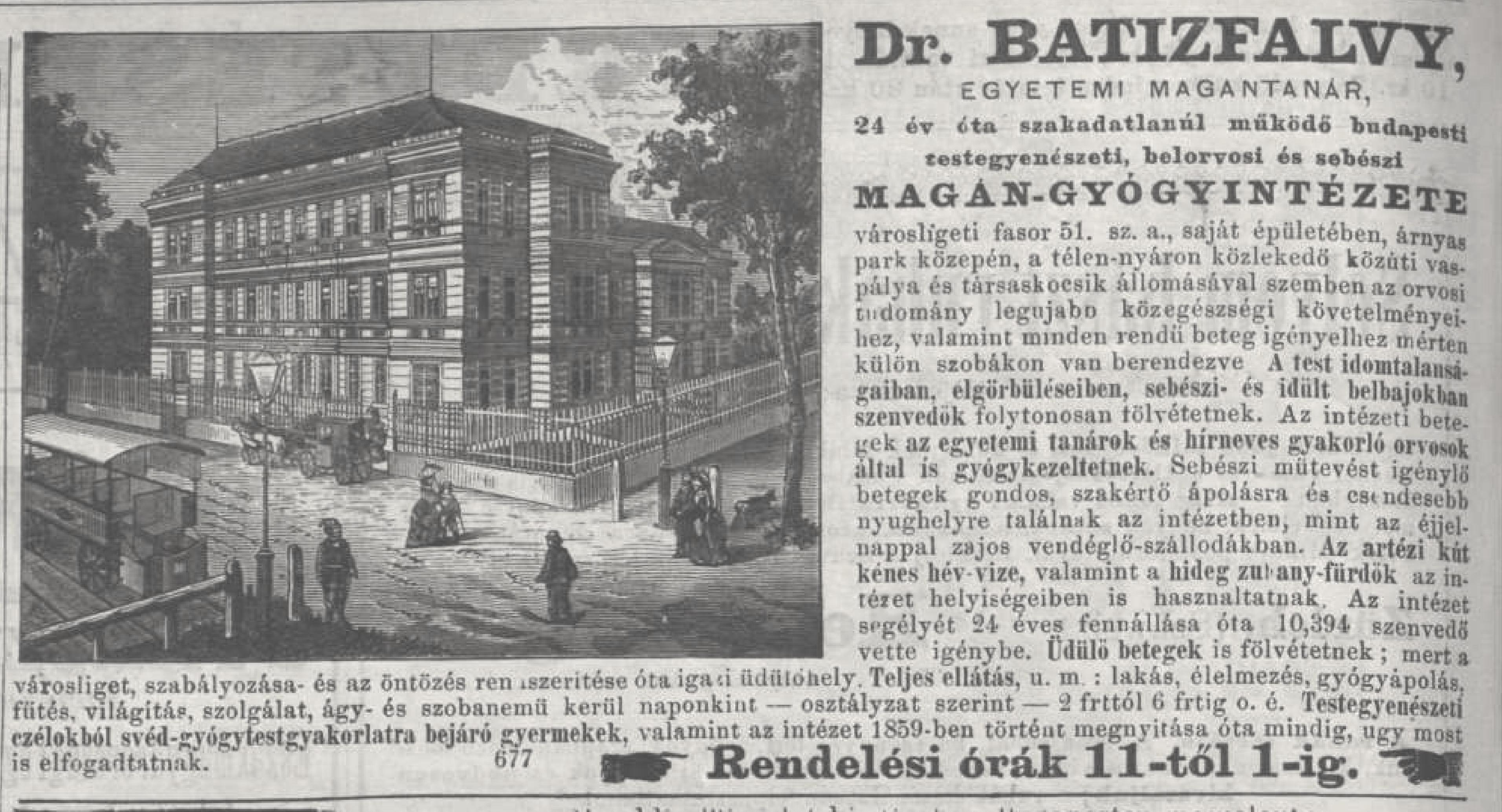 Sámuel Batizfalvy's private hospital in Budapest District VII. The architect was Antal Weber.